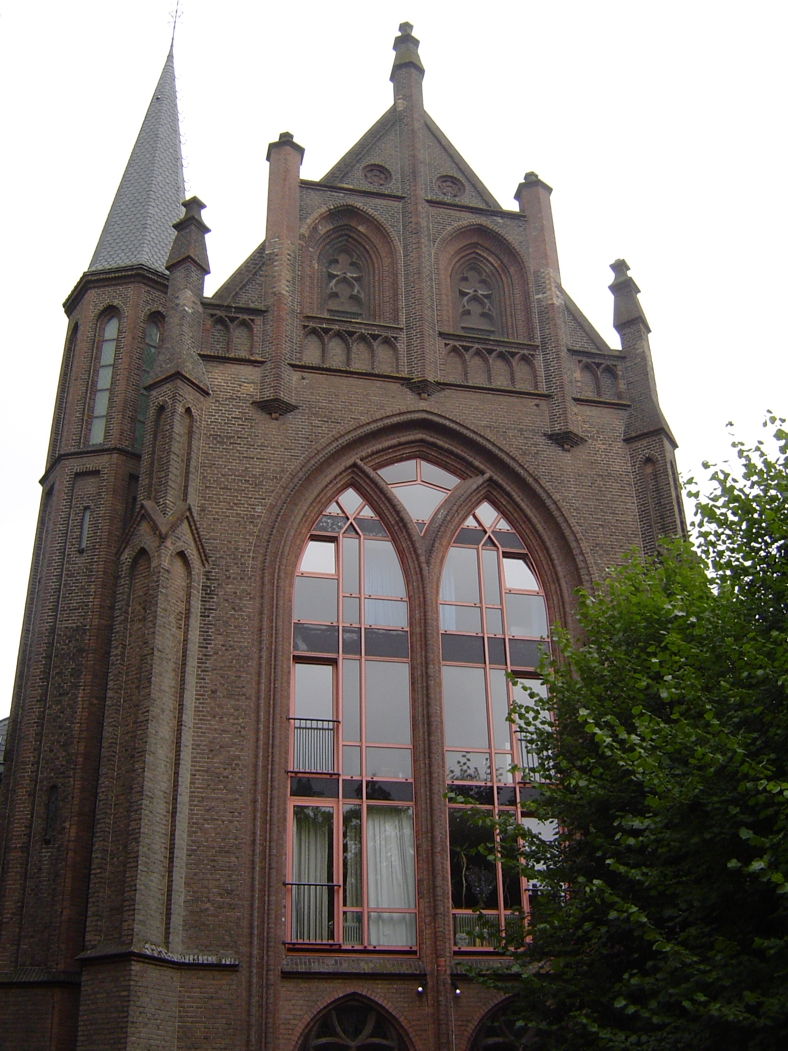 Church St Martinus, Utrecht